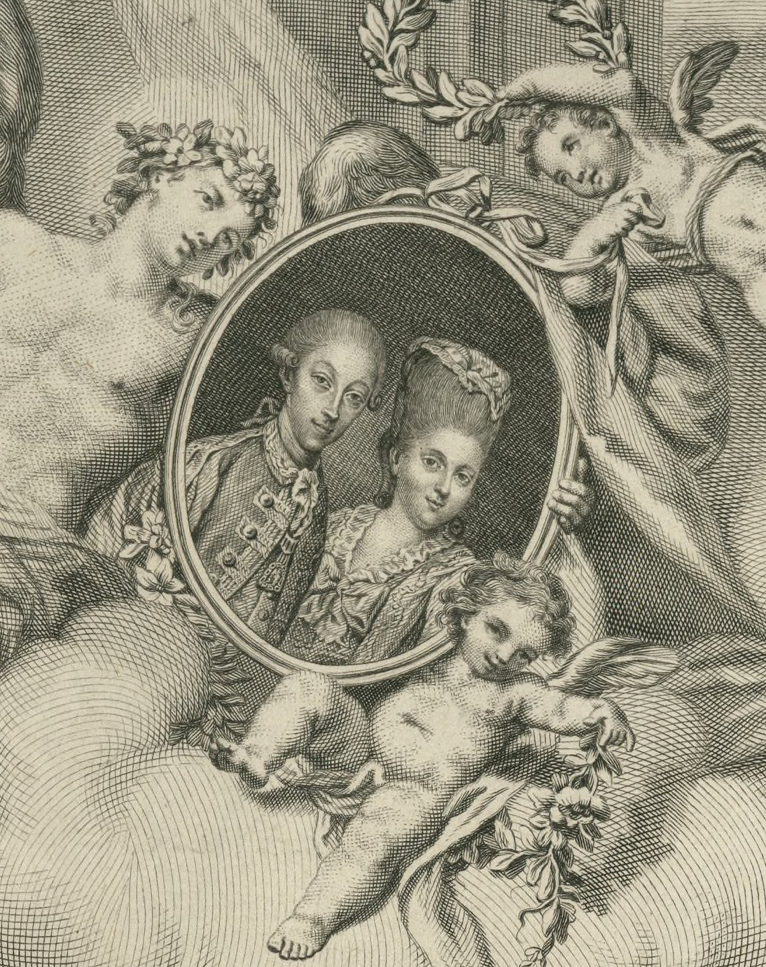 Drawing of Marie Clotilde of France with her husband the Prince of Piedmont